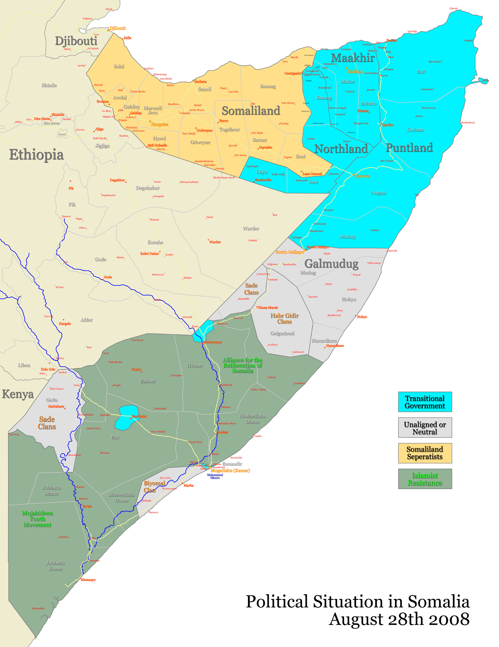 Political map of Somalia